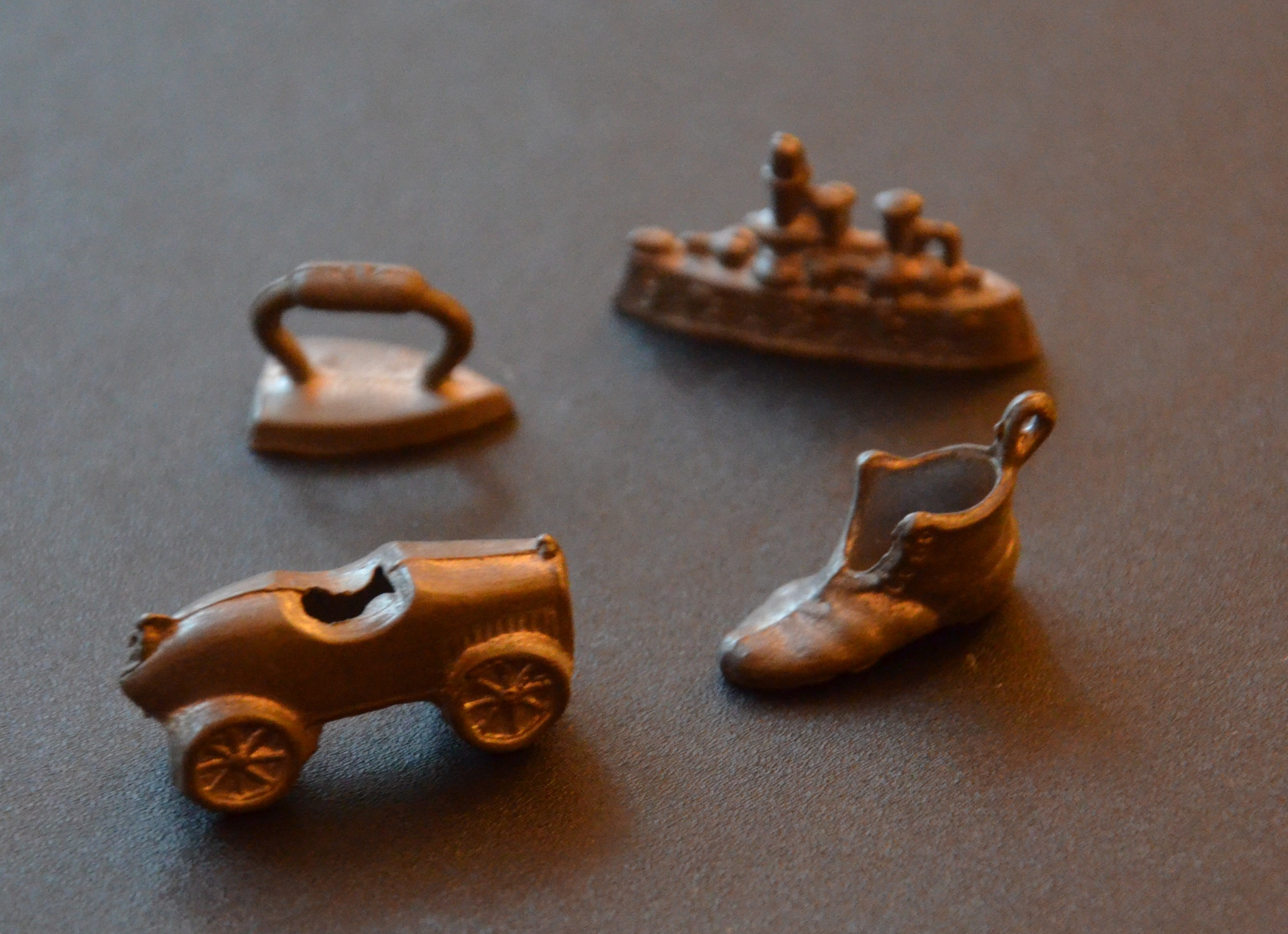 Tokens in Monopoly (game)